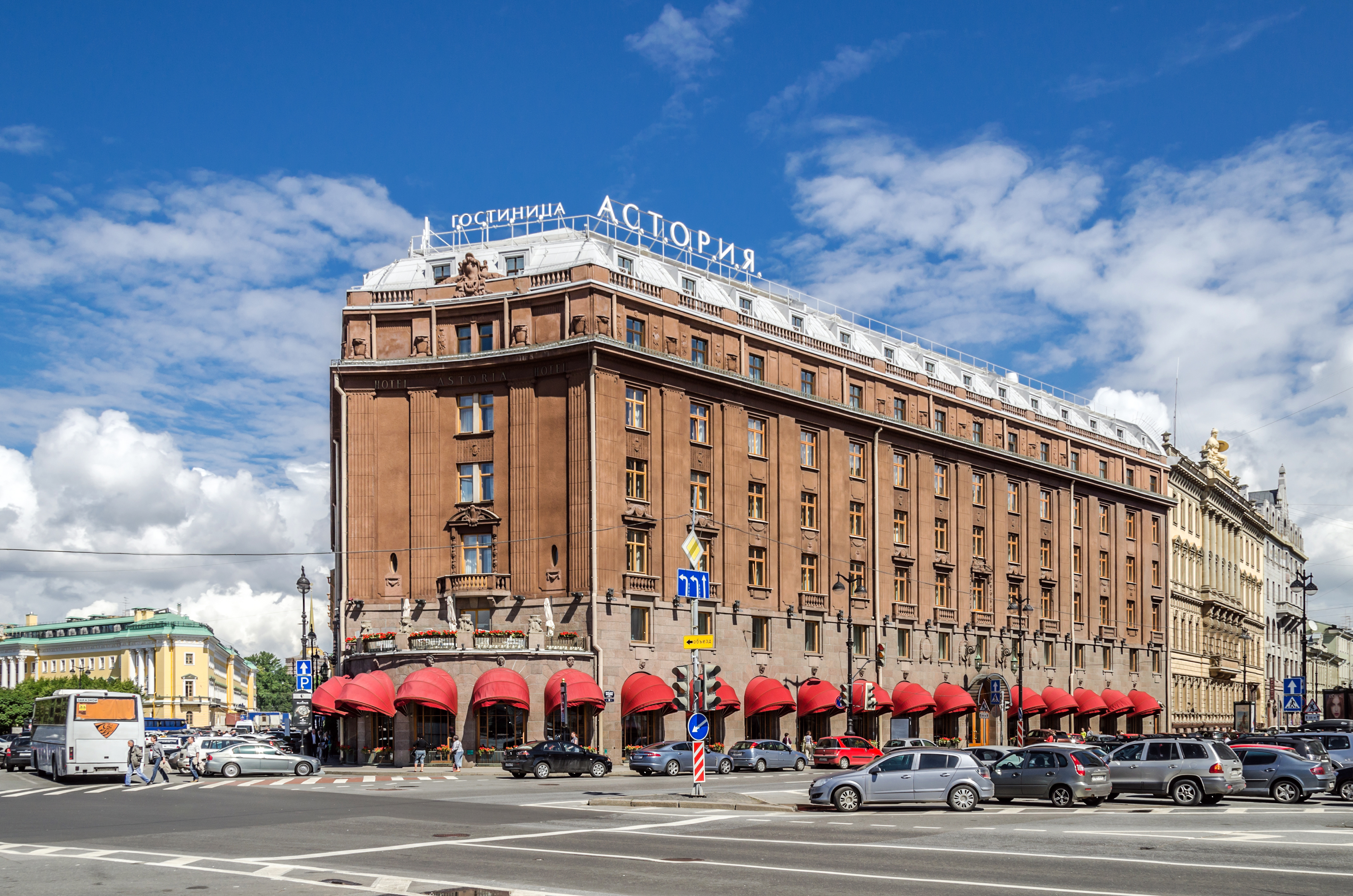 Hotel Astoria in Saint Petersburg